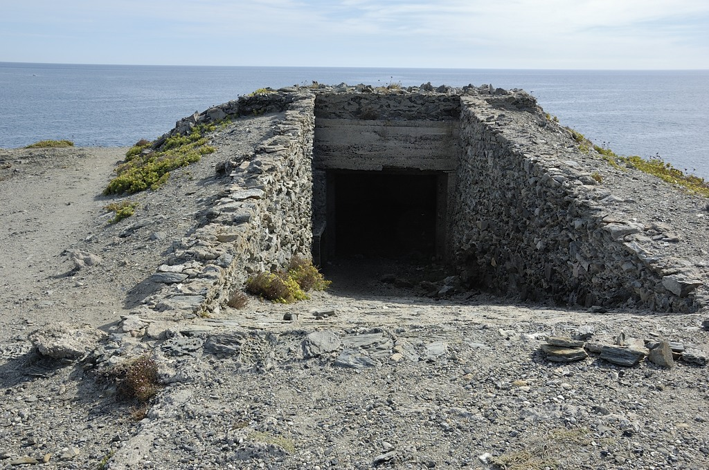 Cape Béar Südwall Fortifications